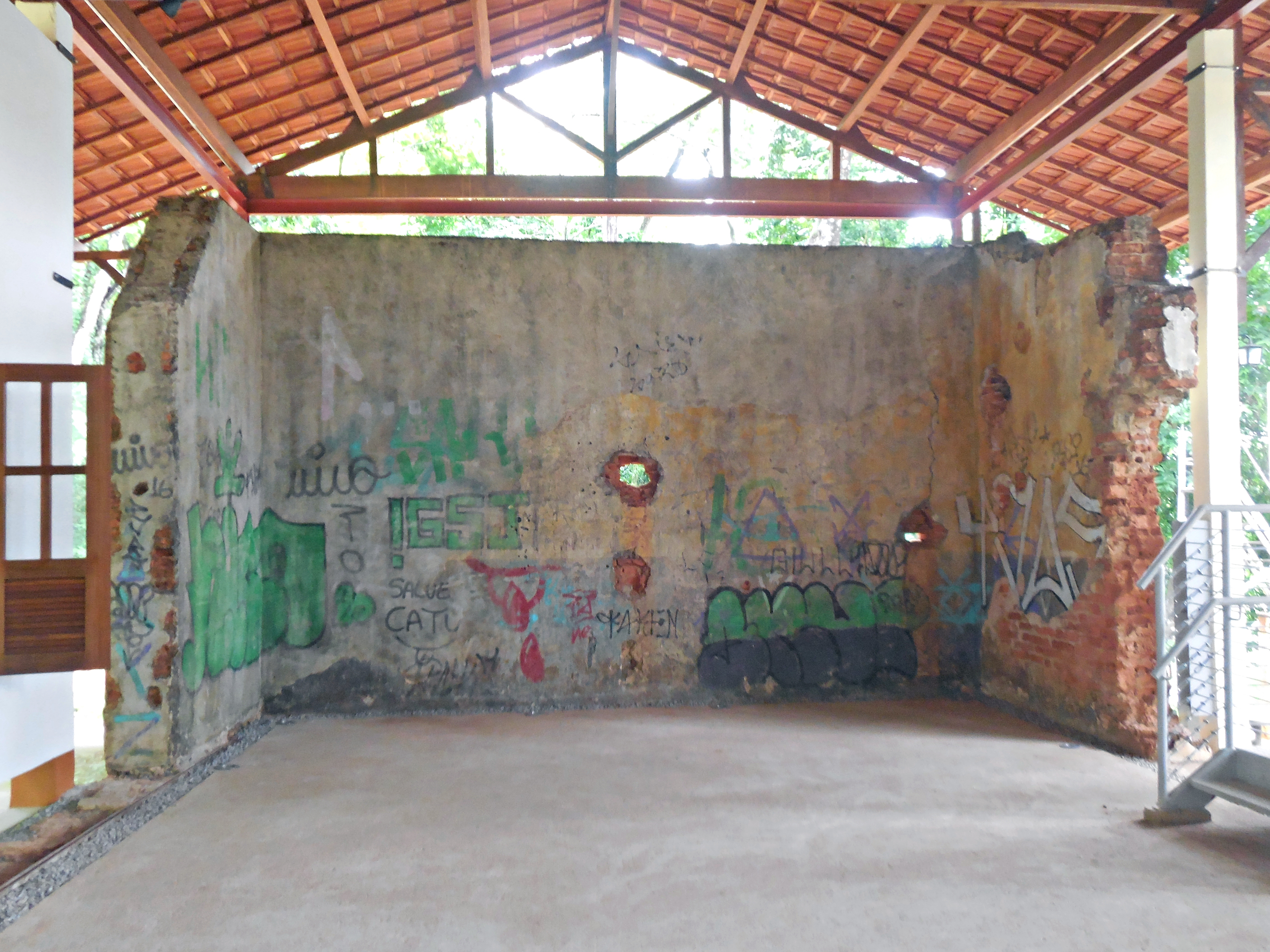 Ruins of the original wall of the Pedra Mole train station, in Ipatinga, Minas Gerais, Brazil.